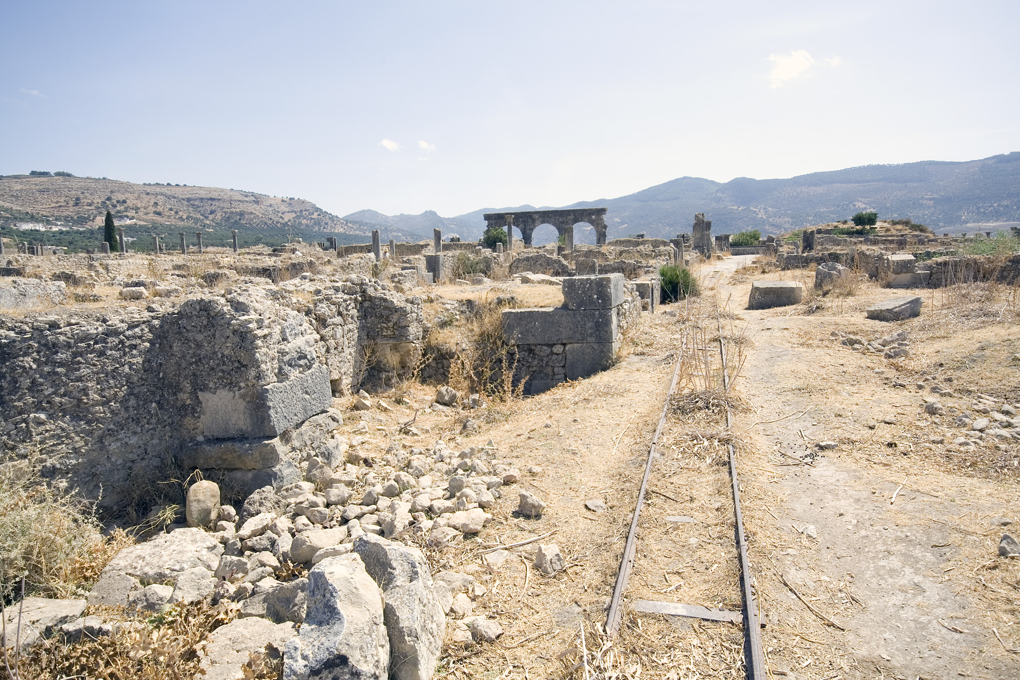 Excavation area at Volubilis, showing a length of abandoned Decauville track